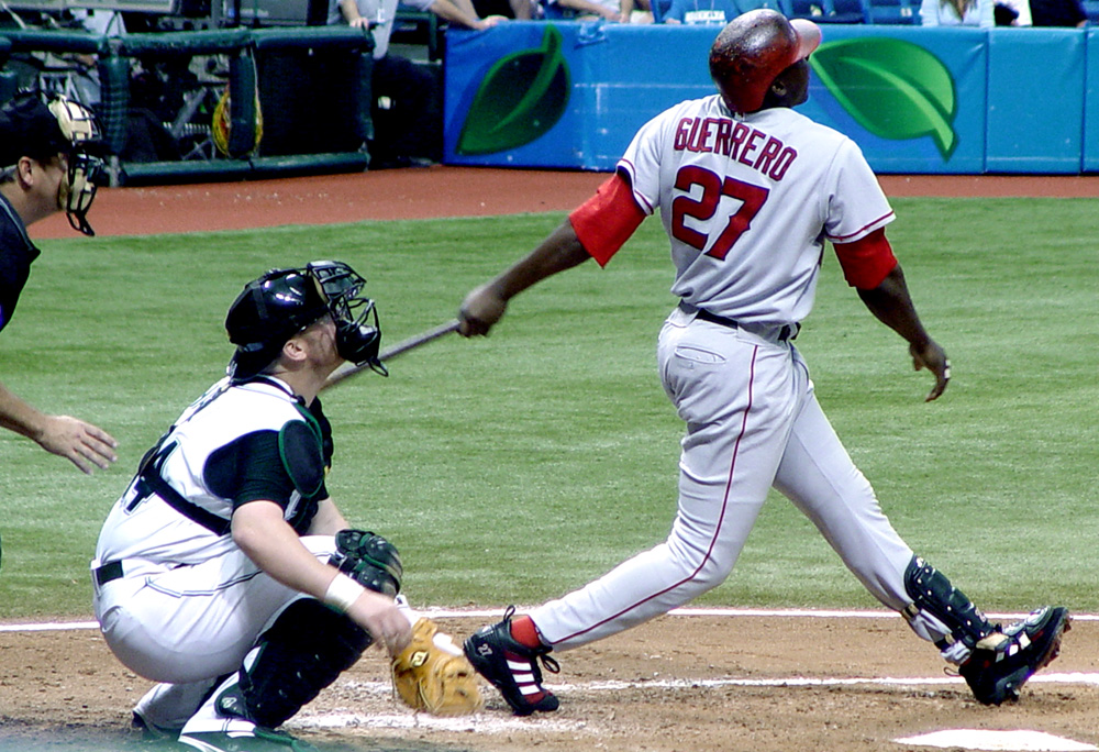 Guerrero swinging at a pitch, August 28, 2005. 23:46, 28 August 2005 . . Googie man . . 1000×684 (364 KB)